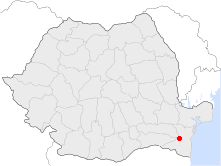 Location of Cernavodă in Romania.